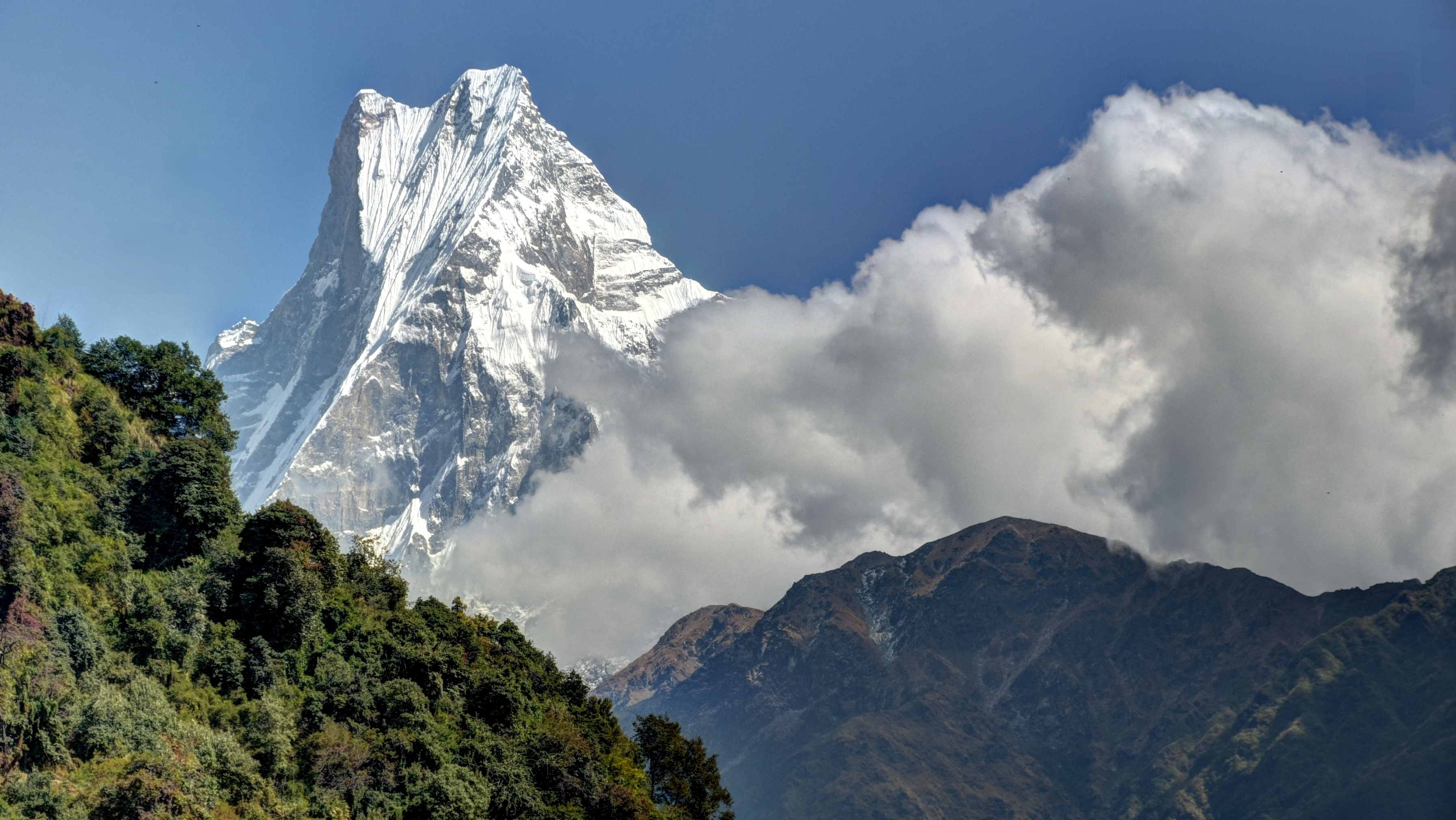 On the way to Choomrong, Machapuchare rises above the forested ridge.